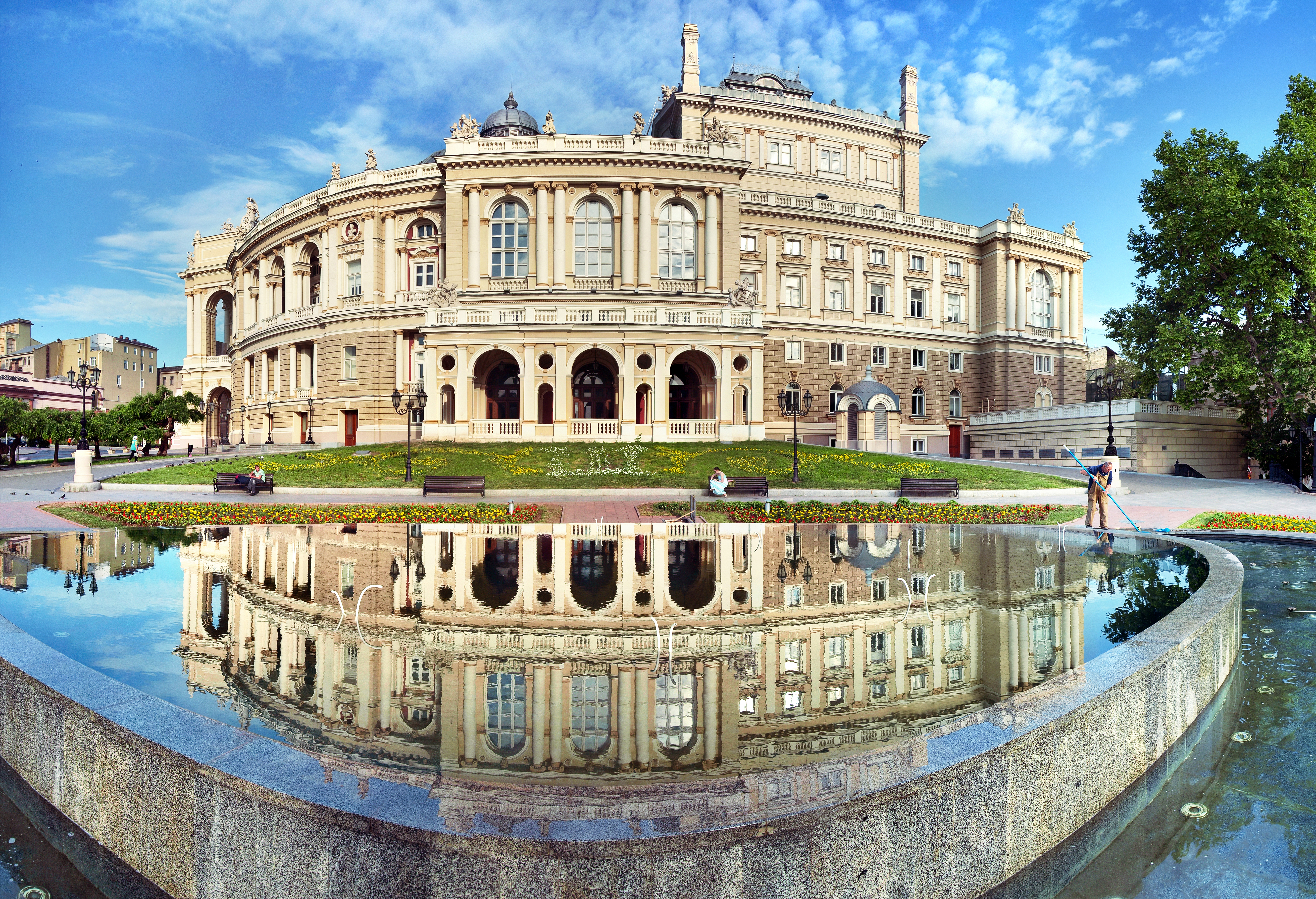 Odessa Opera Theatre